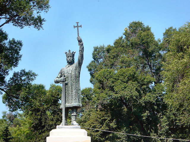 Chisinau, standbeeld Stefan cel Mare.